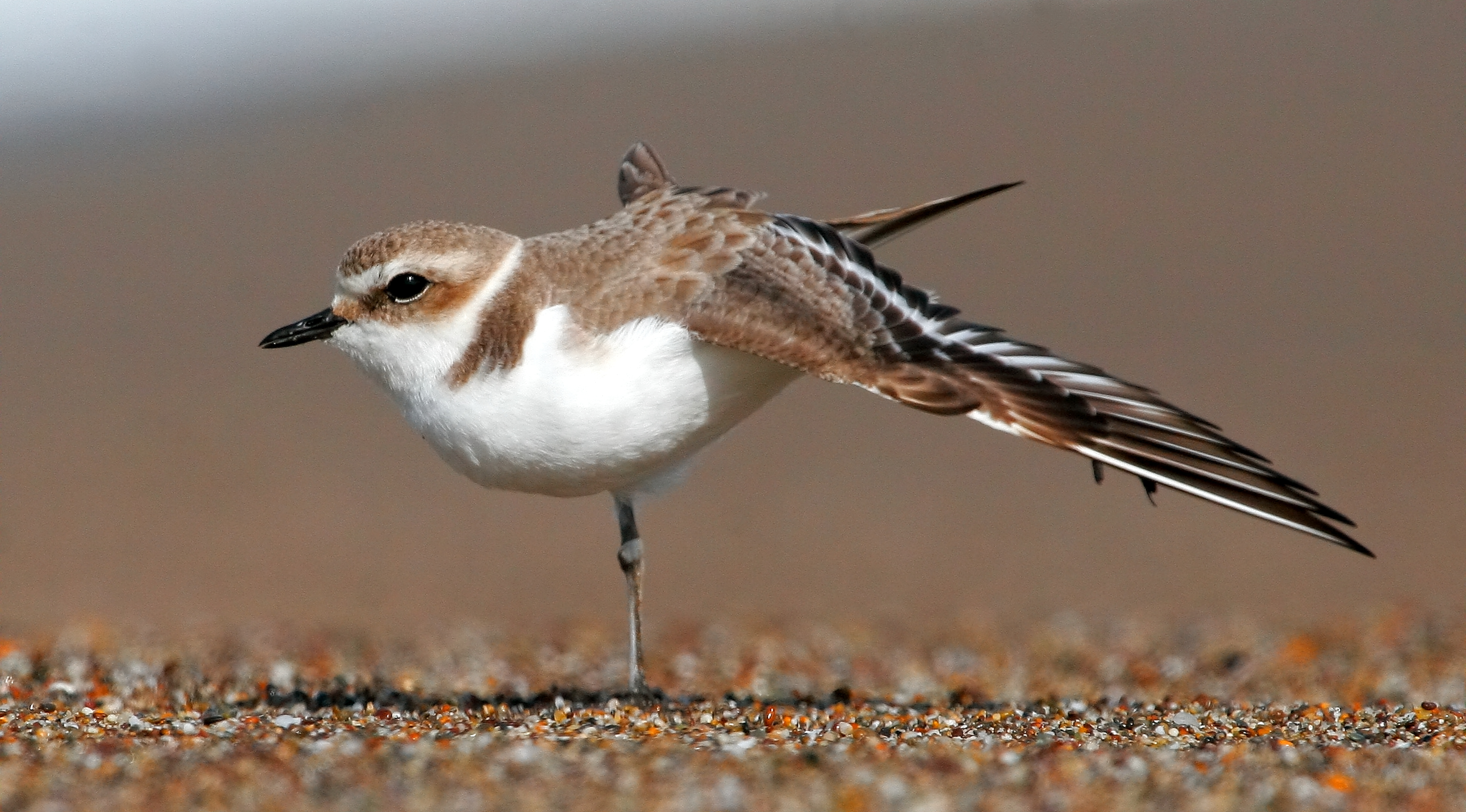 Snowy Plover wing stretching in Marin County, California